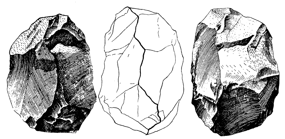 Core shape hand axe from the acheulean site of Torralba, Soria, Spain (collection Marquis of Cerralbo)